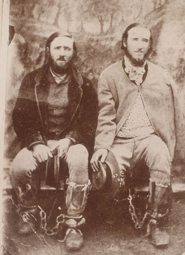 Australian bushrangers Thomas and John Clarke under arrest in Braidwood Jail. Thomas is shot in the arm.